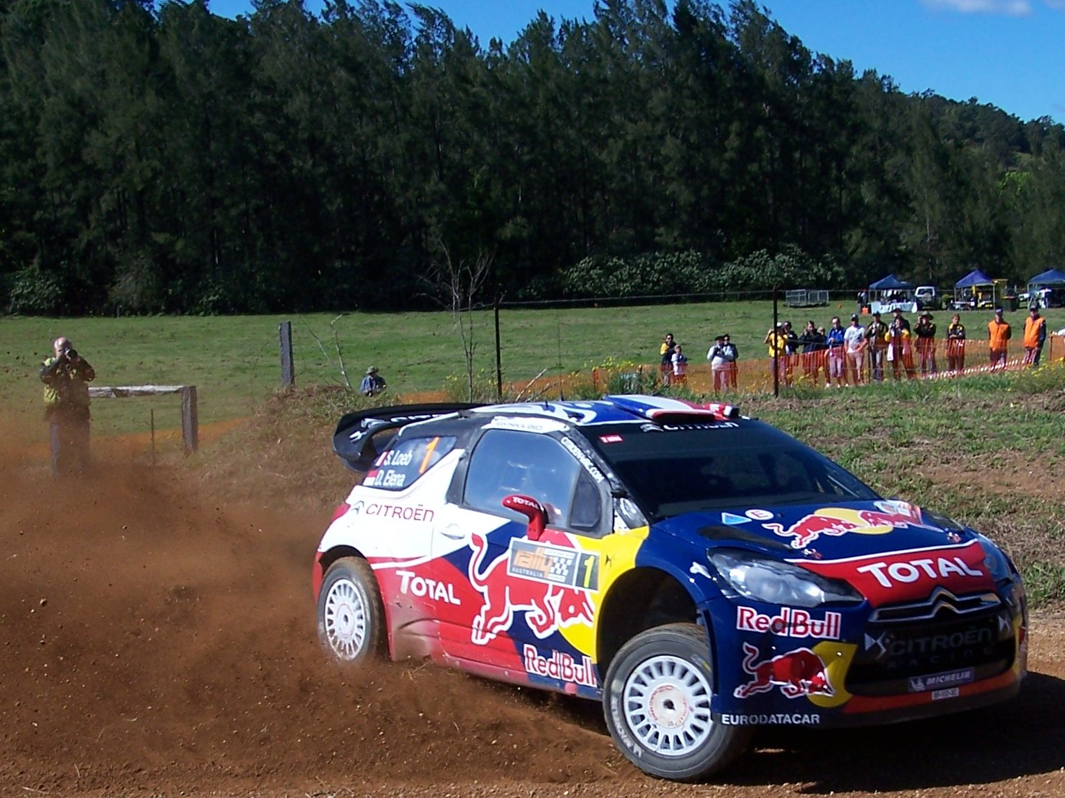 Sébastien Loeb's Citroen DS3 during Rally Australia 2011